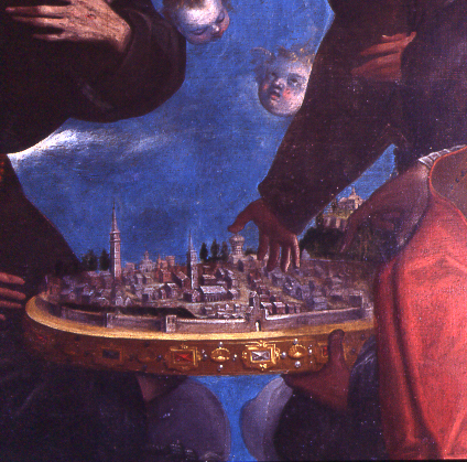 pala chiesa cappuccini